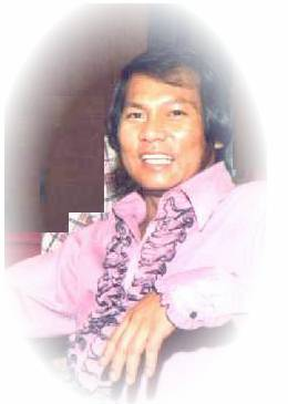 A non-copyrighted Photo of Bobby Enriquez taken by myself and filed in my hard drive.